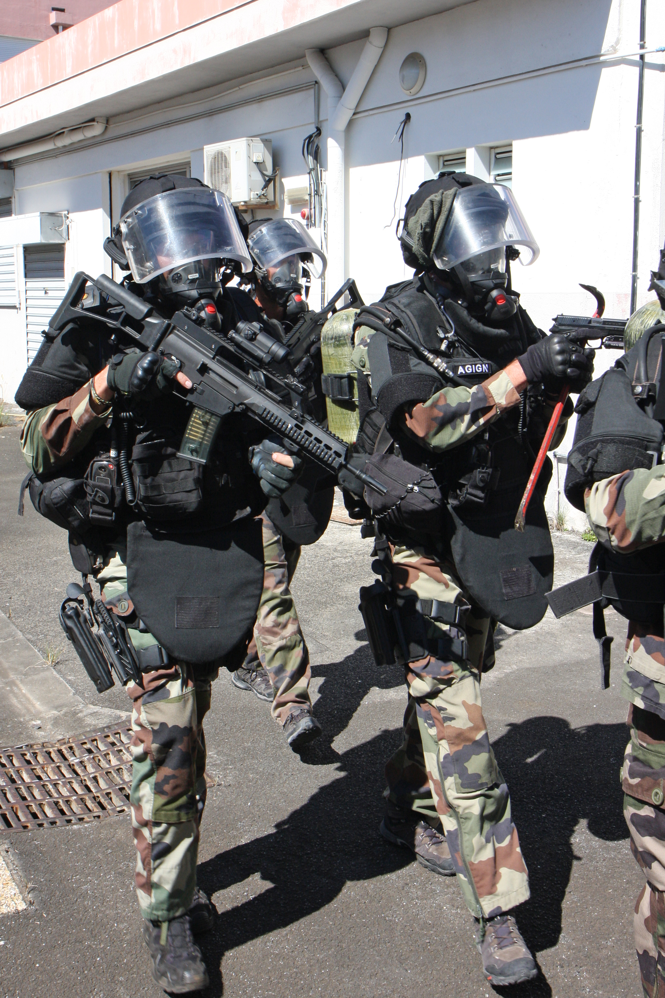 French Gendarmerie AGIGN counter terrorism training